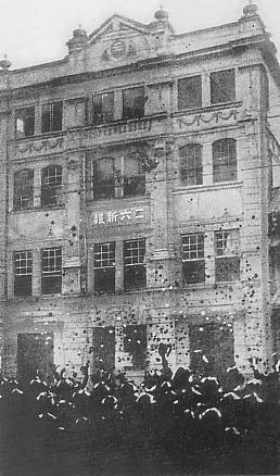 Vandalism of Niroku Shinpo Sha (Pro-government newspaper office)